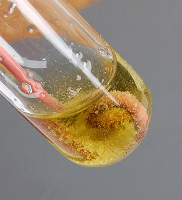 Picture shows small (pure white) copper(I)chloride crystals on copper wire.